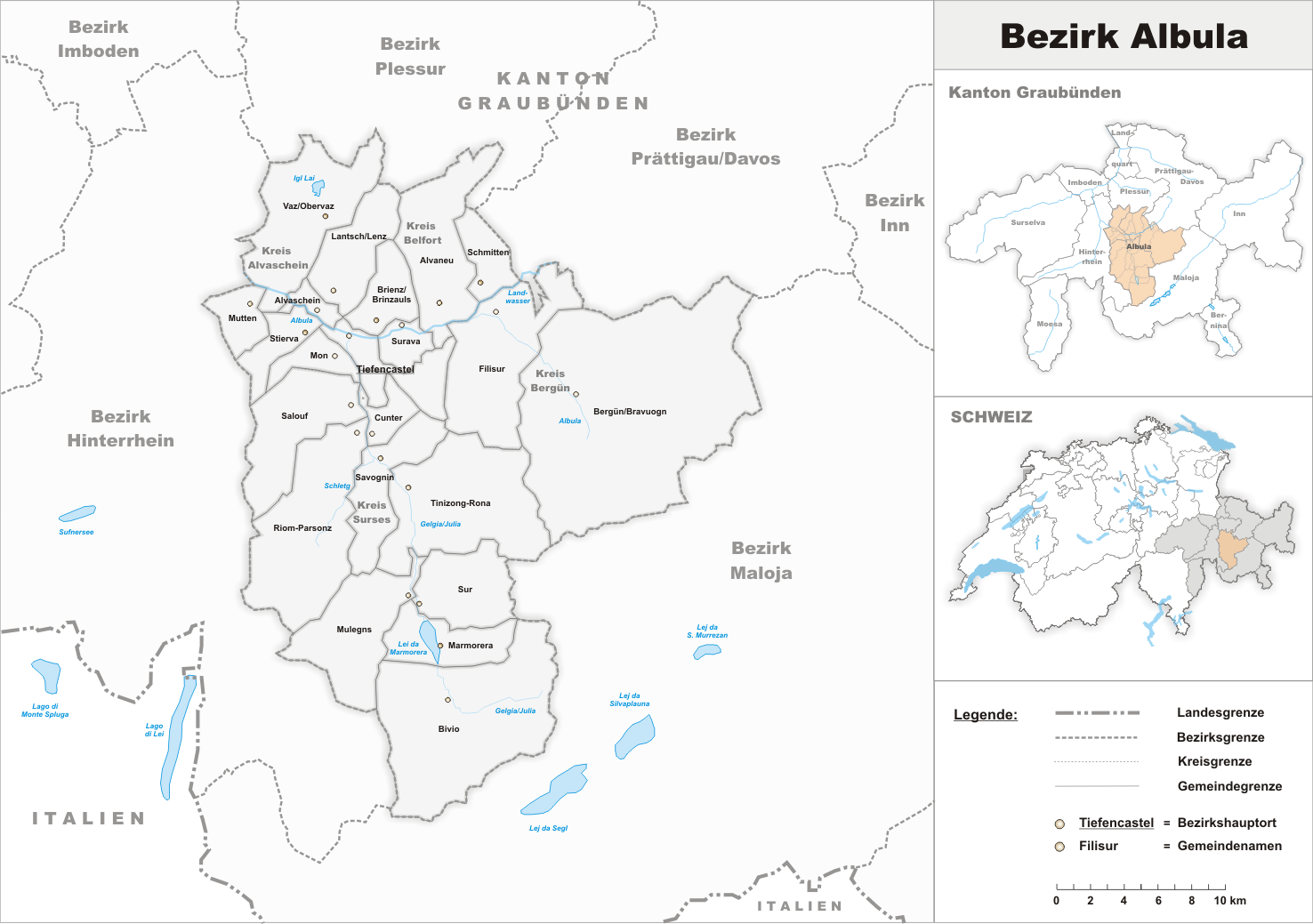 Municipalities in the district of Albula